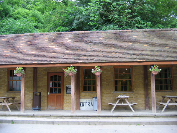 Chislehurst, Kent - the entrance to Chislehurst Caves taken by C Ford June 2004.